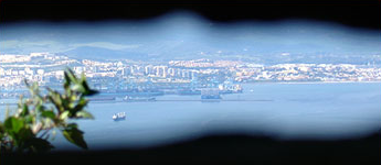 Operation Tracer, Gibraltar. View from observation slit at west end of complex, looking over the Bay of Gibraltar.